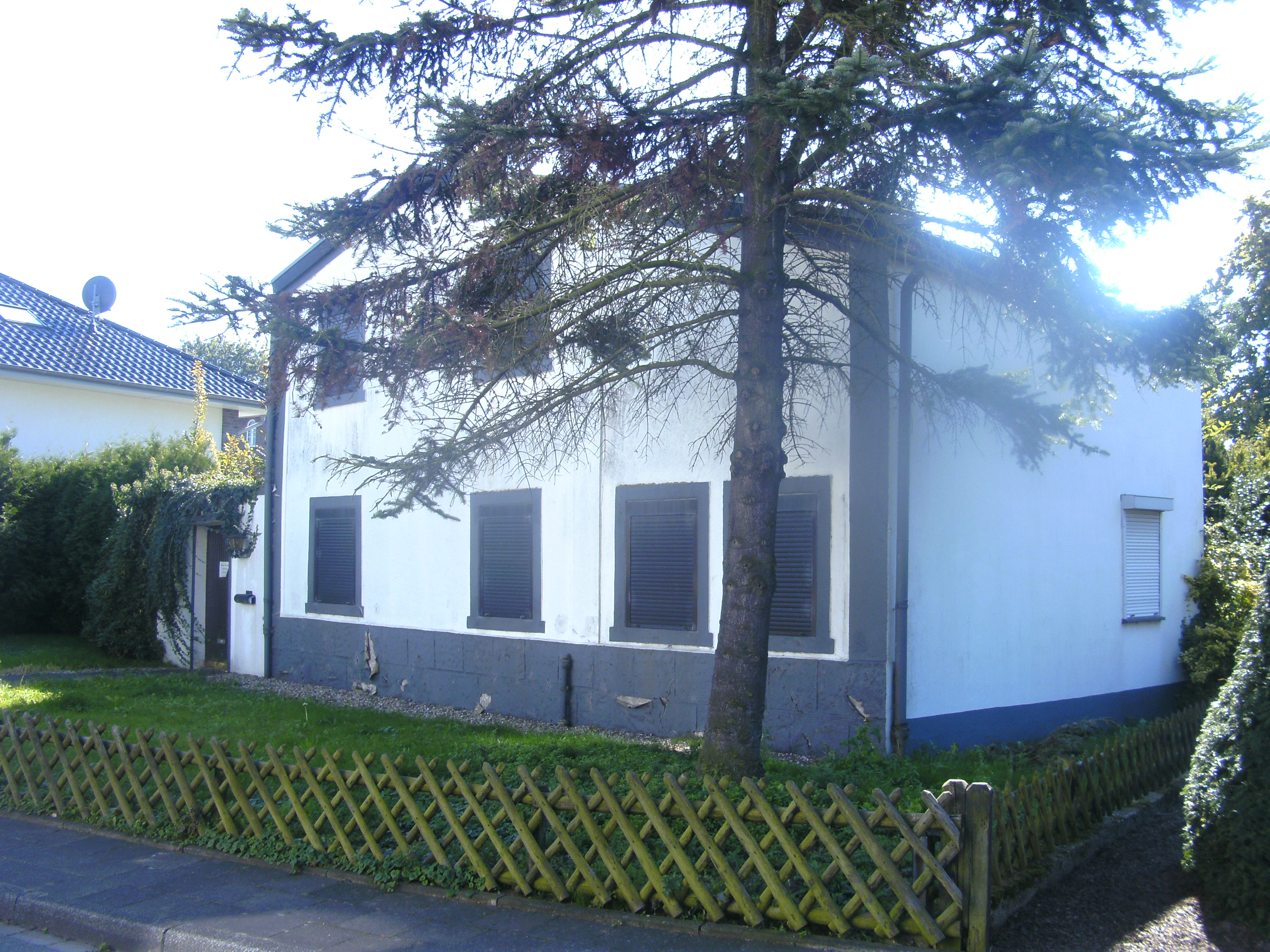 House of birth from Peter Weiand